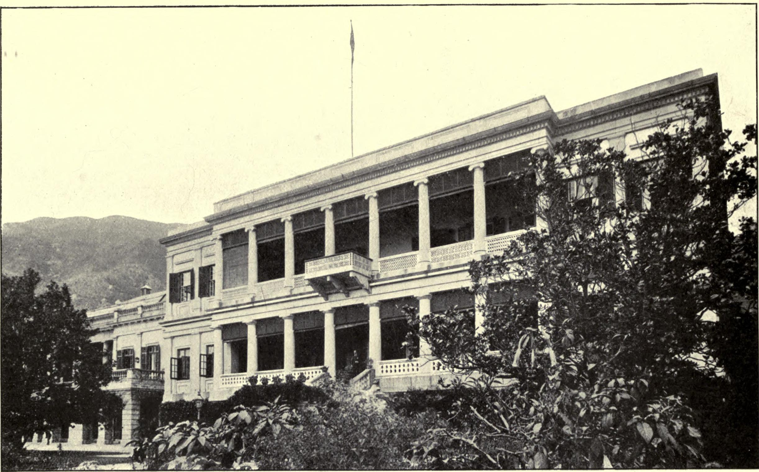 Government House, Hong Kong